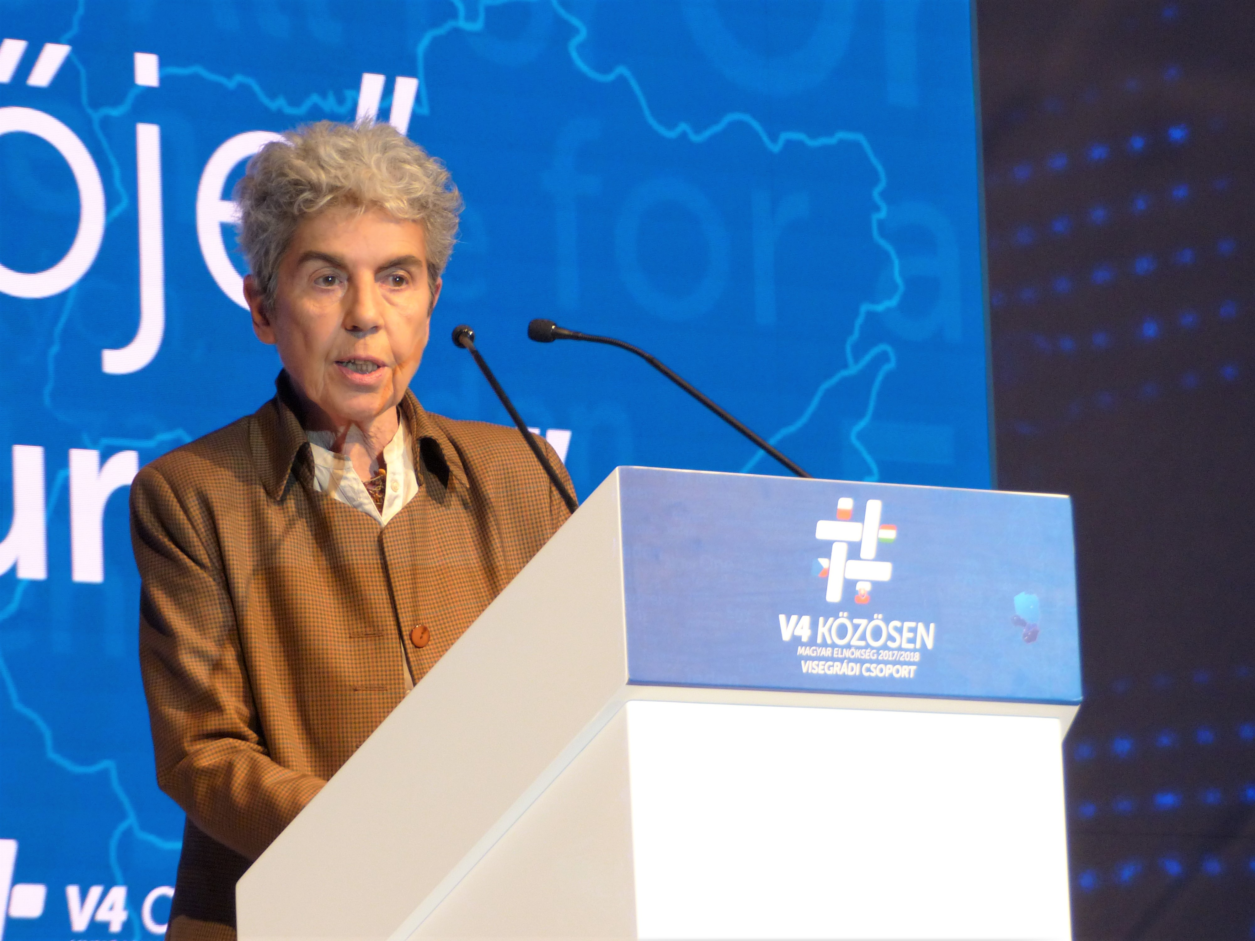 Chantal Delsol - French philosopher, political historian, novelist, founder of Hannah Arendt Institute, France - : The Specificity of Western Humanism. The Future of Europe. V4 Connects. International conference, held on the 23rd and 24th of May, 2018, Várkert Bazár, Budapest, Central Europe. Taken on the first day of the conference, Wednesday, the 23rd of May, 2018.